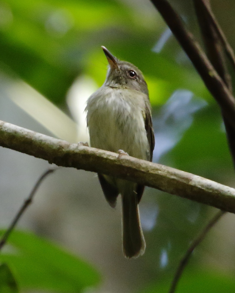 Snethlage's tody-tyrant at Carajás National Forest - Pará - Brazil